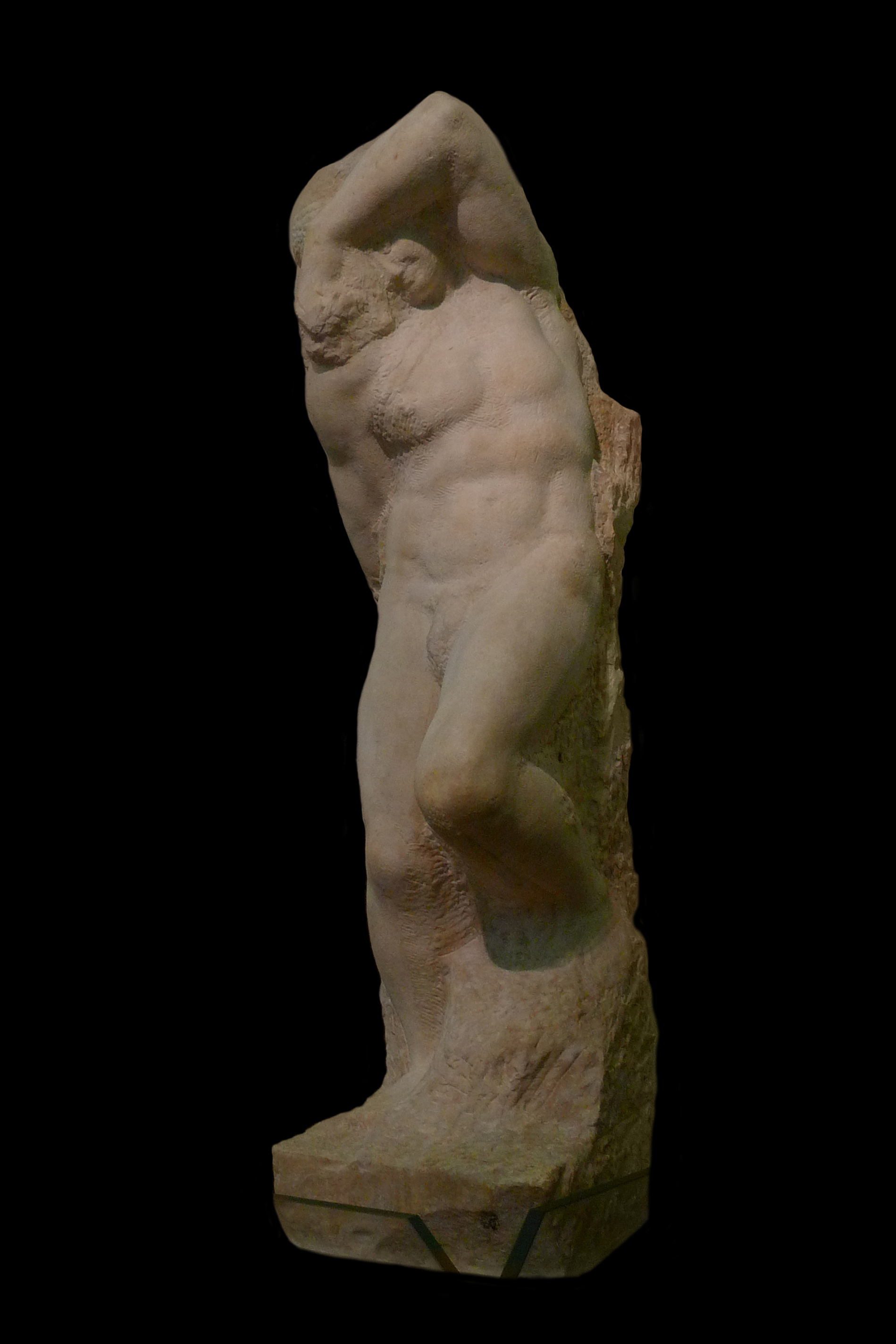 'Young Slave' by Michelangelo for the Julius Tomb, 1520-23? Florence, Galleria dell' Accademia